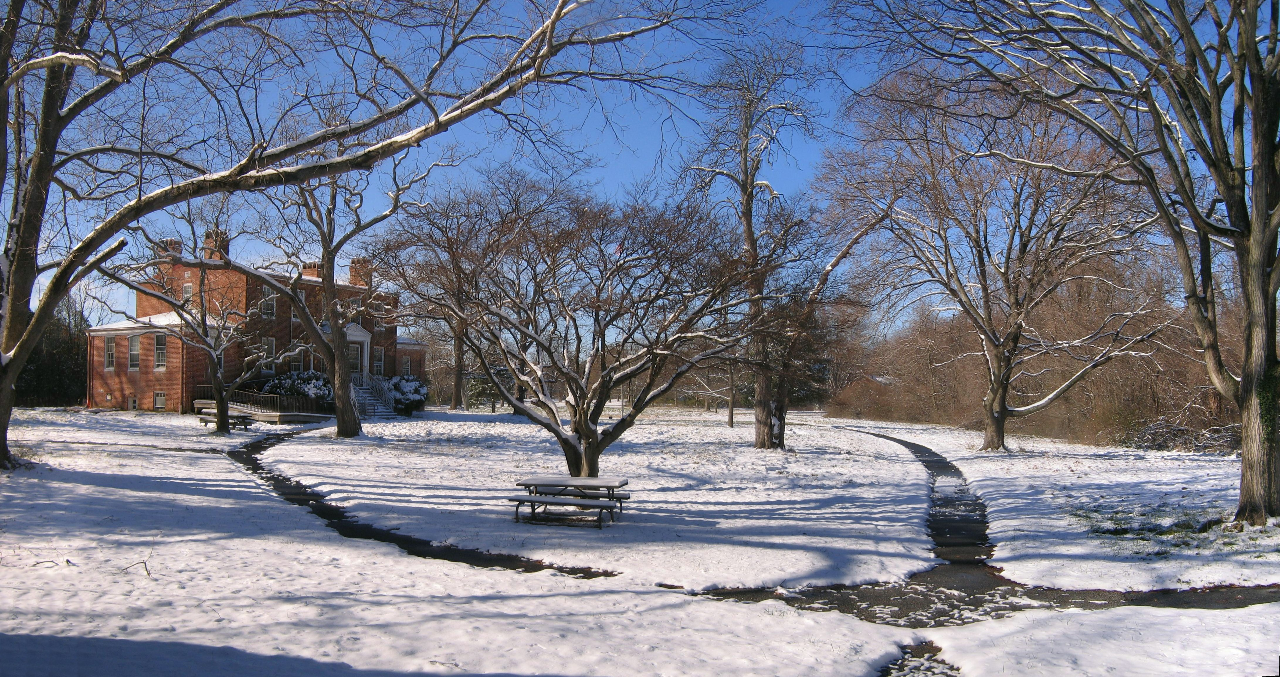 Snowden Hall — former plantation house on the Patuxent Wildlife Research Refuge in the Patuxent Research Refuge. Located in the Laurel—Bowie area, Prince George's County, Maryland. This panoramic image was created with Autostitch (stitched images may differ from reality).